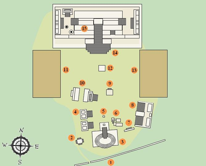 Archaeological map of the ruins of Ek' Balam in Yucatan, Mexico